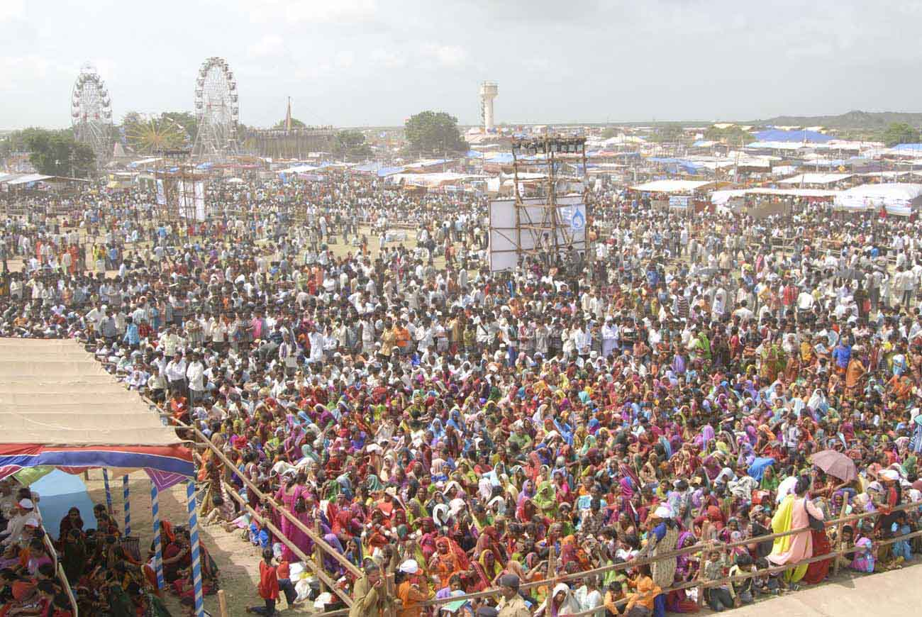 Tarnetar Fair held in gujarat